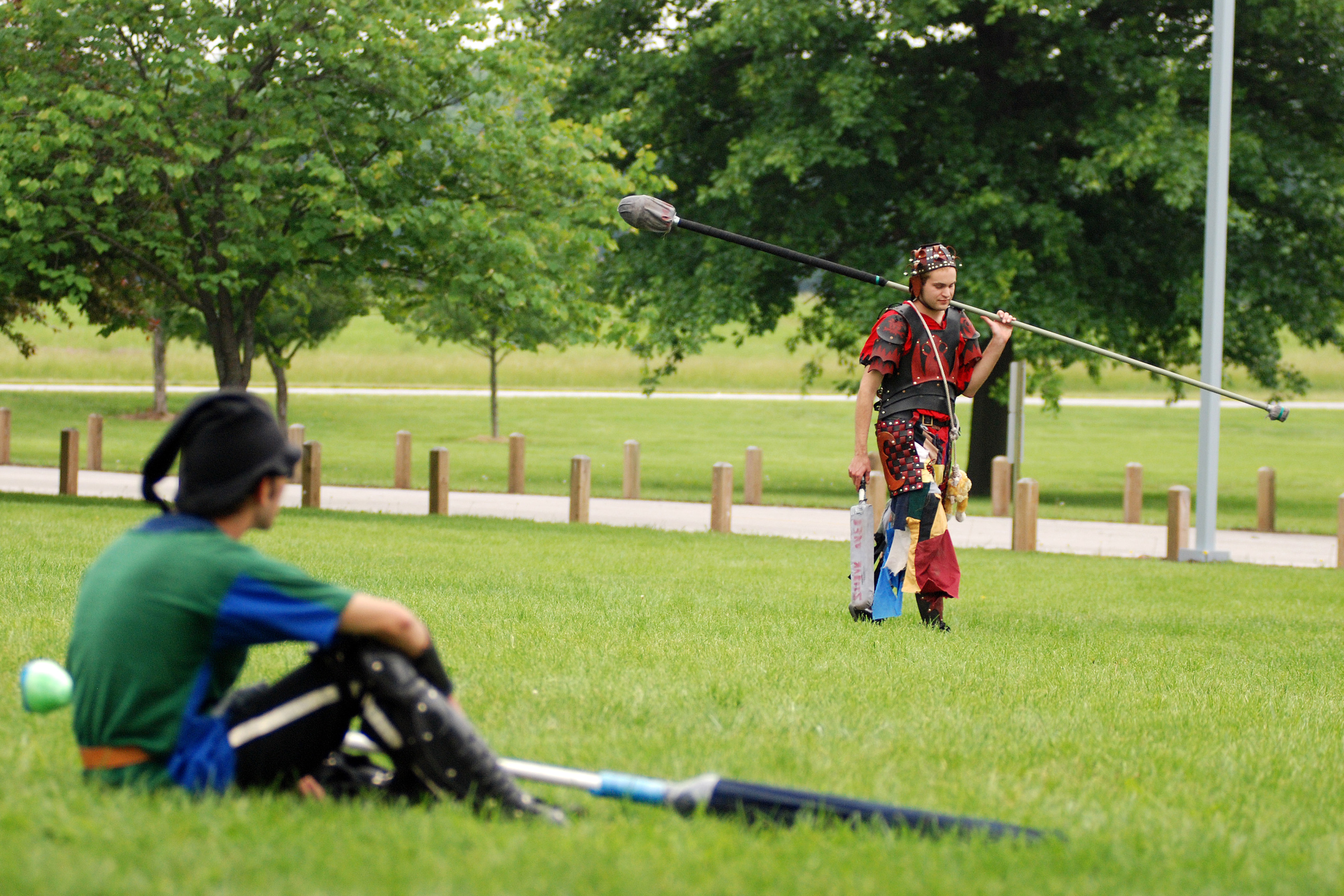 Pictures from a Dagorhir event taking place in Missouri.